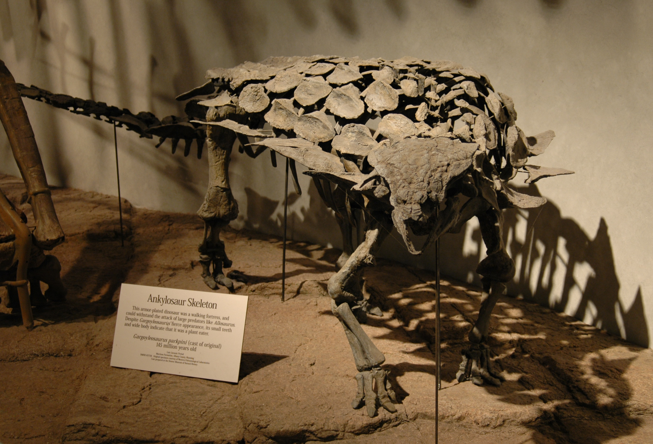 Fossil skeleton of Gargoyleosaurus parkpinorum taken in 2007 at the Denver Museum of Nature and Science.